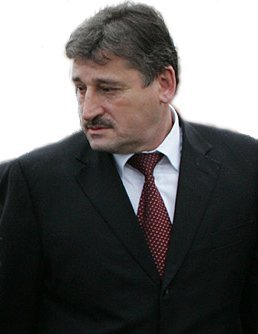 Alu Alkhanov, the second President of the Chechen Republic.